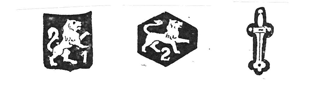 Duty mark for silver work, Netherland, 1814-1953